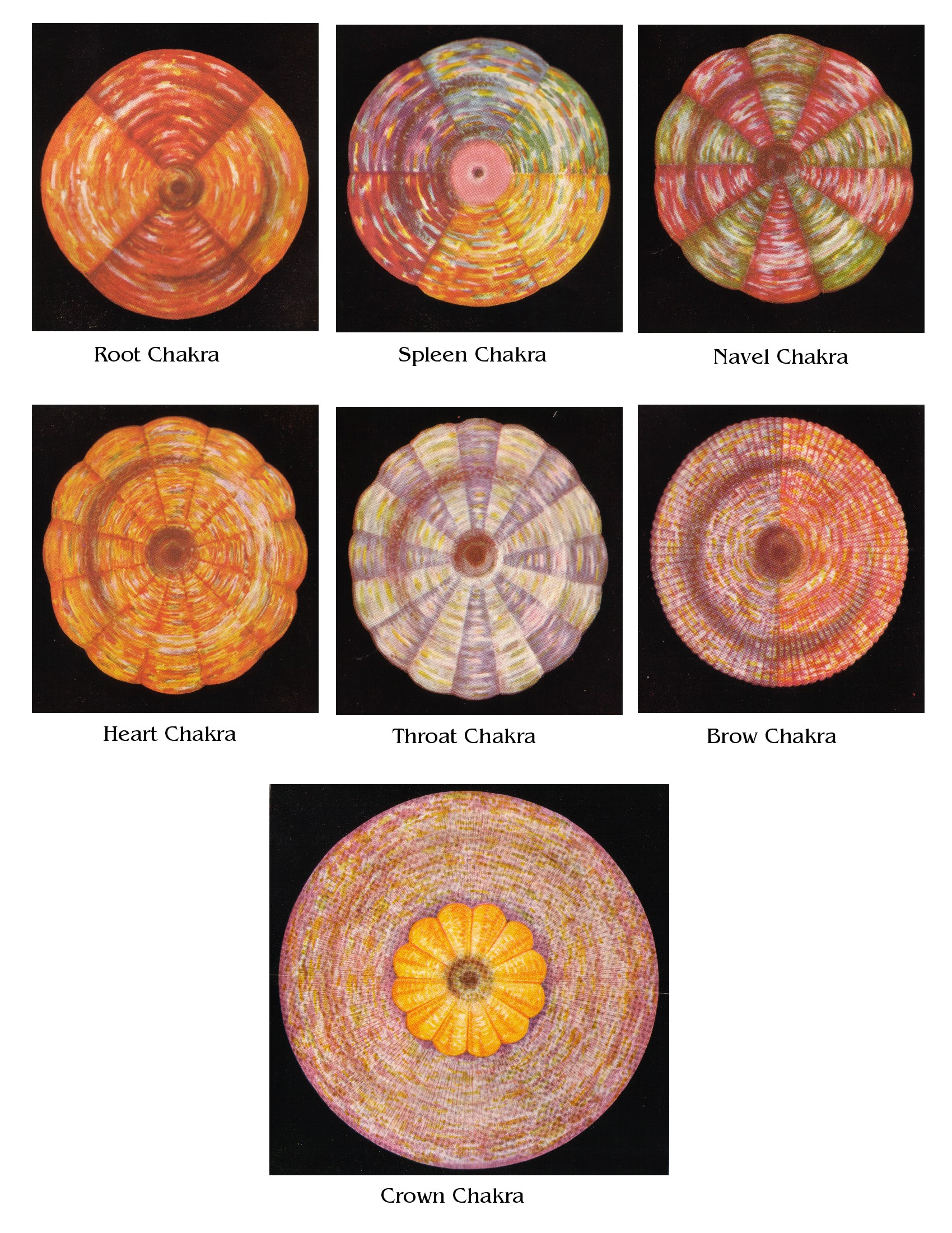 Clairvoyantly observed chakra depictions